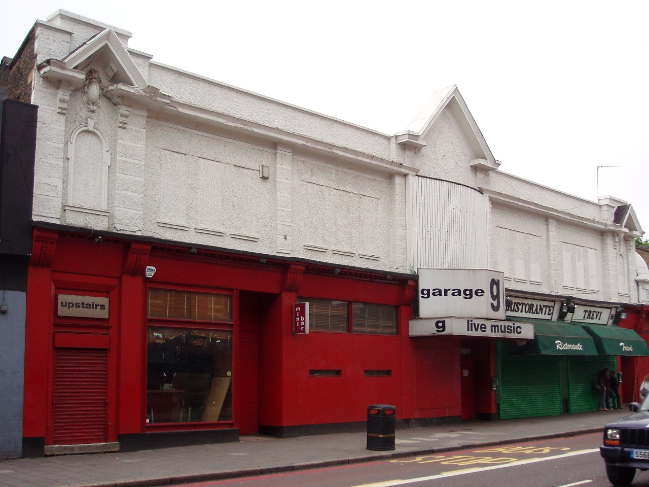 A live music venue going through a period of closure when this photo was taken. It has since reopened with the MiniBar renamed as The General Store . Address: 20-22 Highbury Corner. Owner: MAMA and Company (former). Links: London Pubology (The General Store)